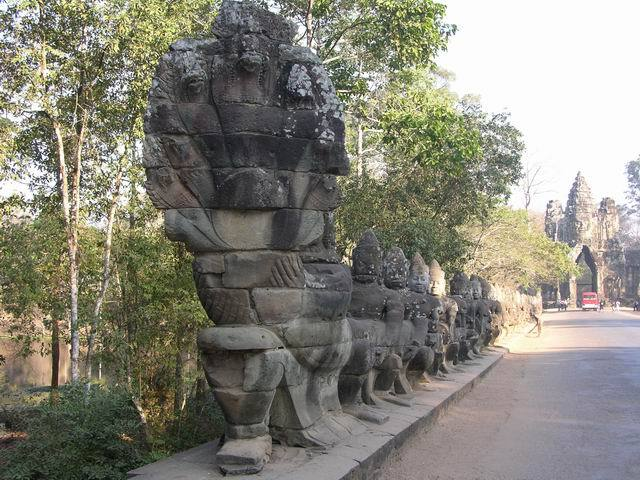 Angkor Thom (in Angkor). A bridge to a gate